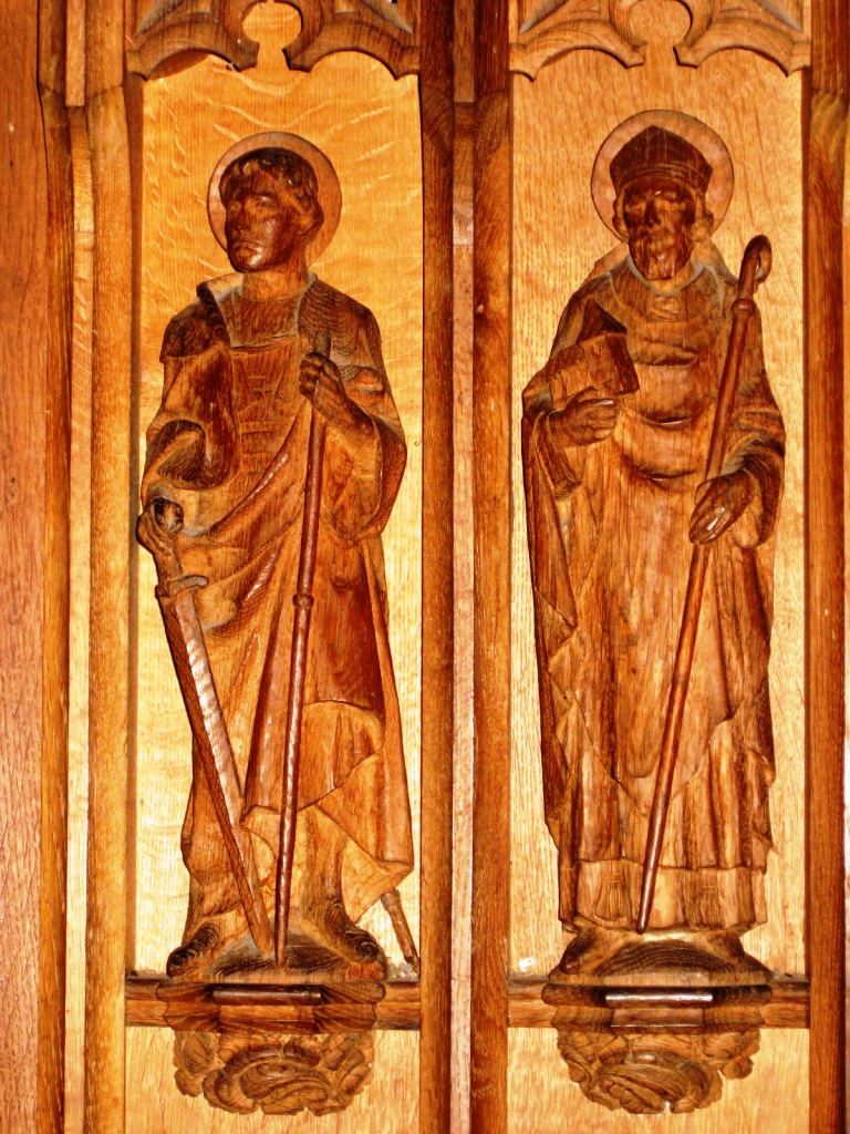 Carvings of St Alban and St Cedd on reredos in All Saints' Great Braxted